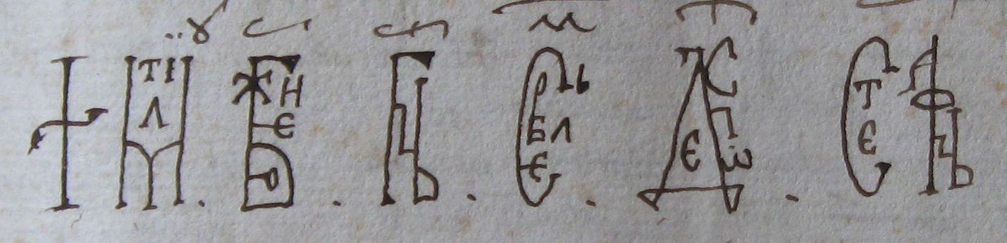 Фрагмент грамоты Стефана Лазаревича из государственного архива Дубровника (1186-1479)